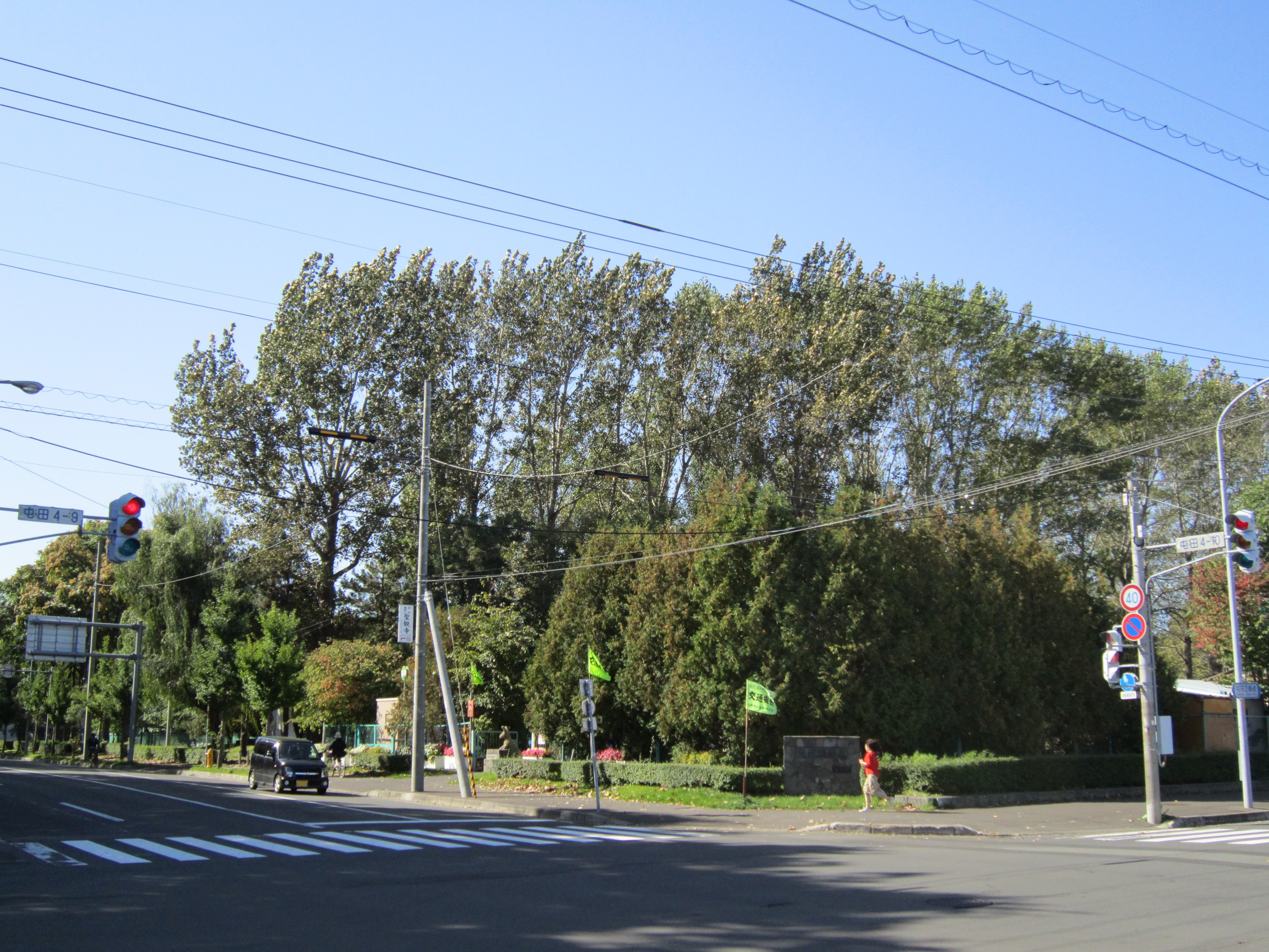 Tonden Nishi Park